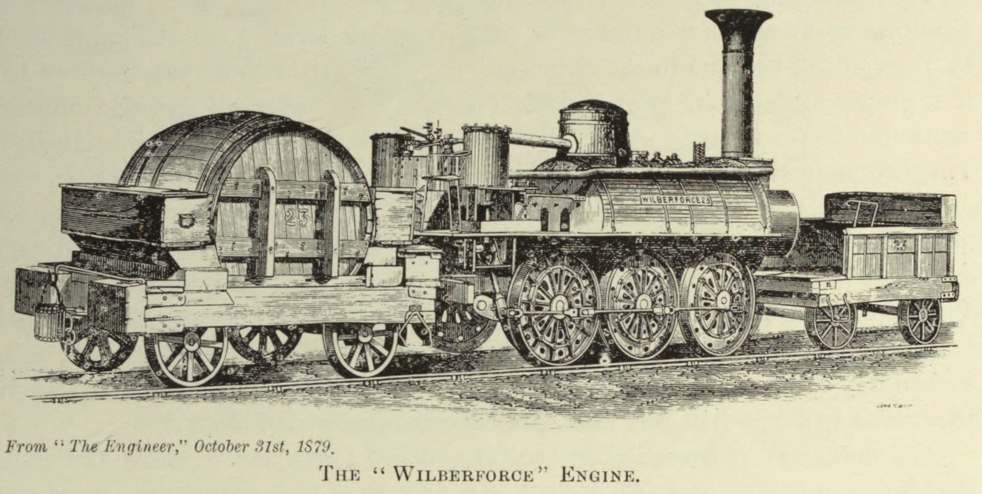 The "Wilberforce" steam locomotive, designed by Timothy Hawkworth for the Stockton and Darlington Railway and built in 1831/2.